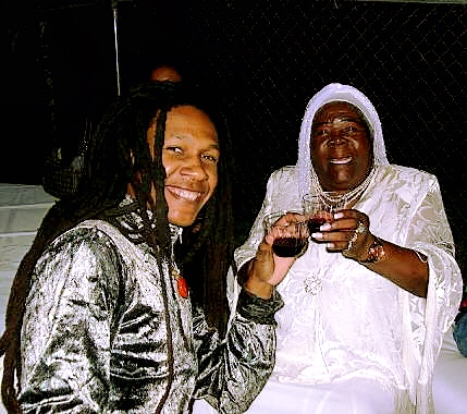 At mother Booker's birthday party.